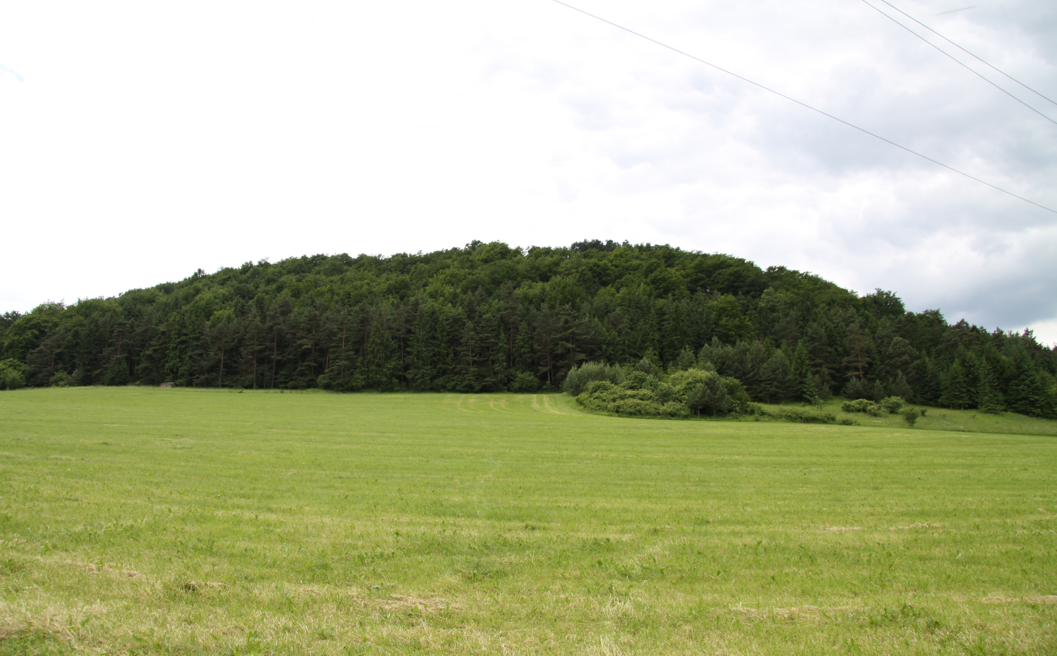 Natural reservation Pučanka in Klatovy District, Czech Republic This photograph was taken within the scope of the 'Czech Municipalities Photographs' grant.